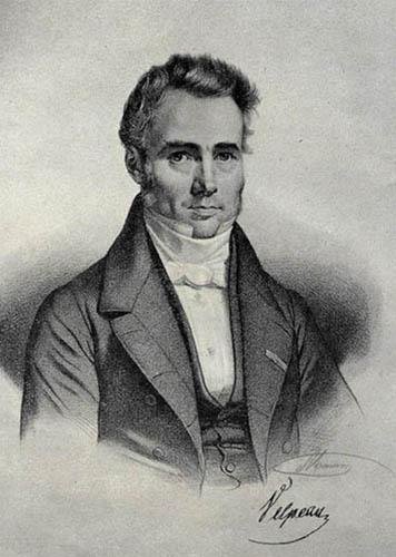 Portrait of French surgeon and anatomist Alfred Velpeau (1795-1867)